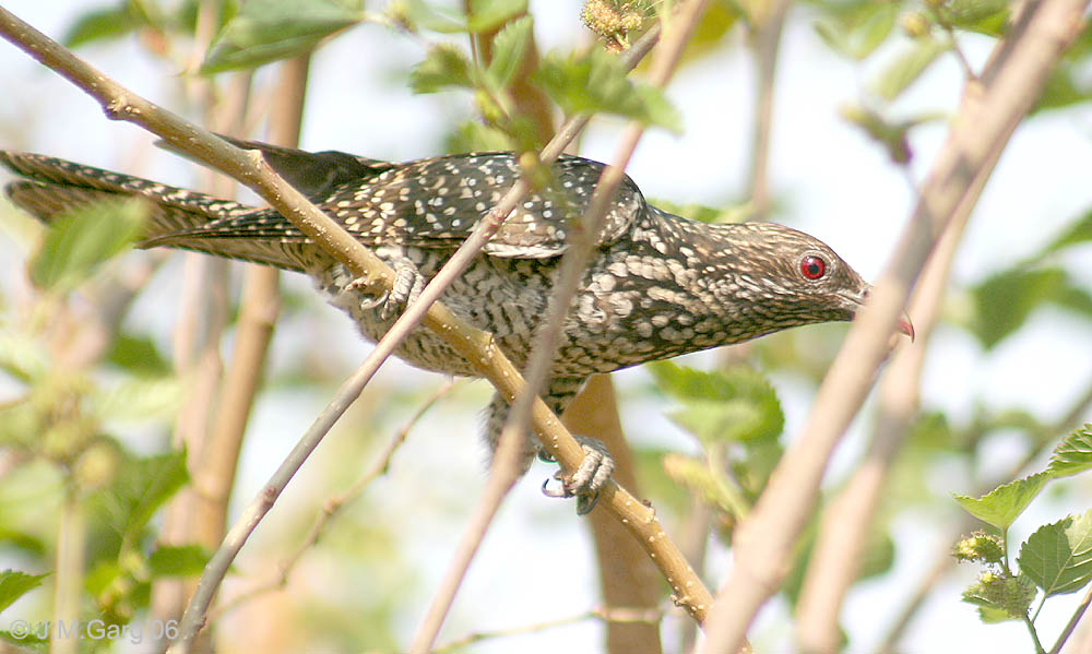 Asian Koel Eudynamys scolopaceus in Bhopal, Madhya Pradesh, India.